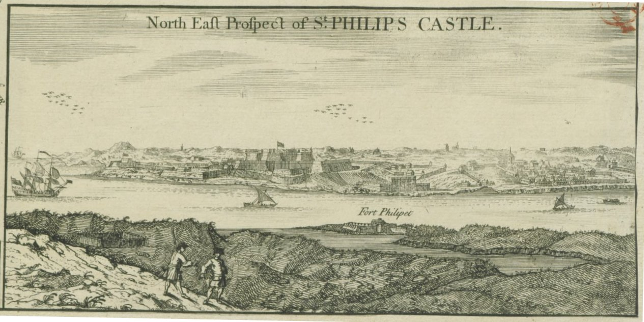 A New and Accurate survey of the island of Minorca, ... Overview of Fort St. Philip. 1746